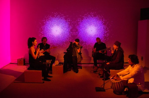 The Sundara All-Star Band performing Jung Hee Choi Tonecycle for Blues Base 30 Hz, 2:3:7 Ensemble Version with 4:3 and 7:6. MELA Dream House, New York. 2017.